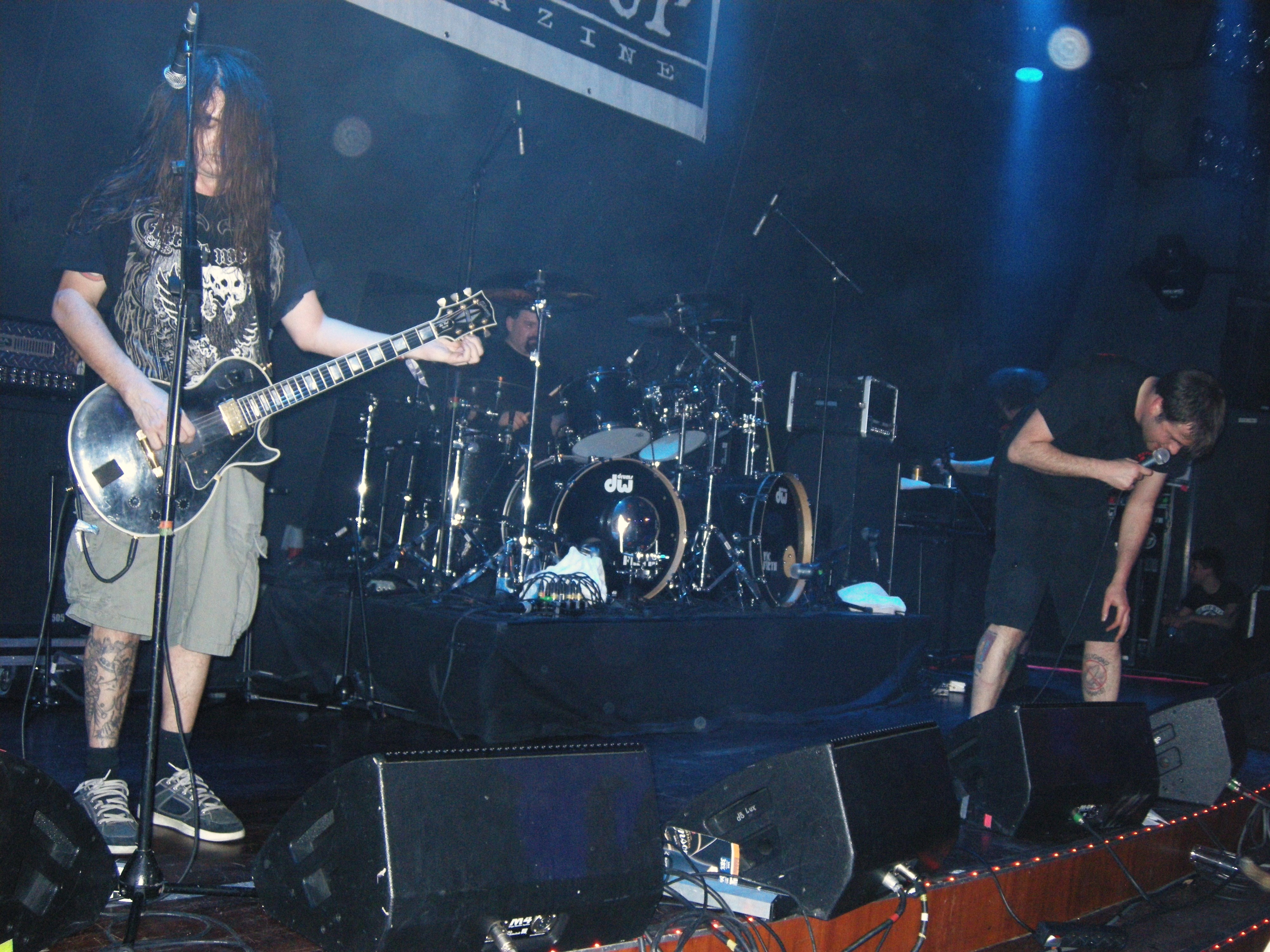 Napalm Death at The Close-Up boat February 2011